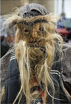 Person disguised as currumacho during carnival in Navalosa (Castile and León, Spain).